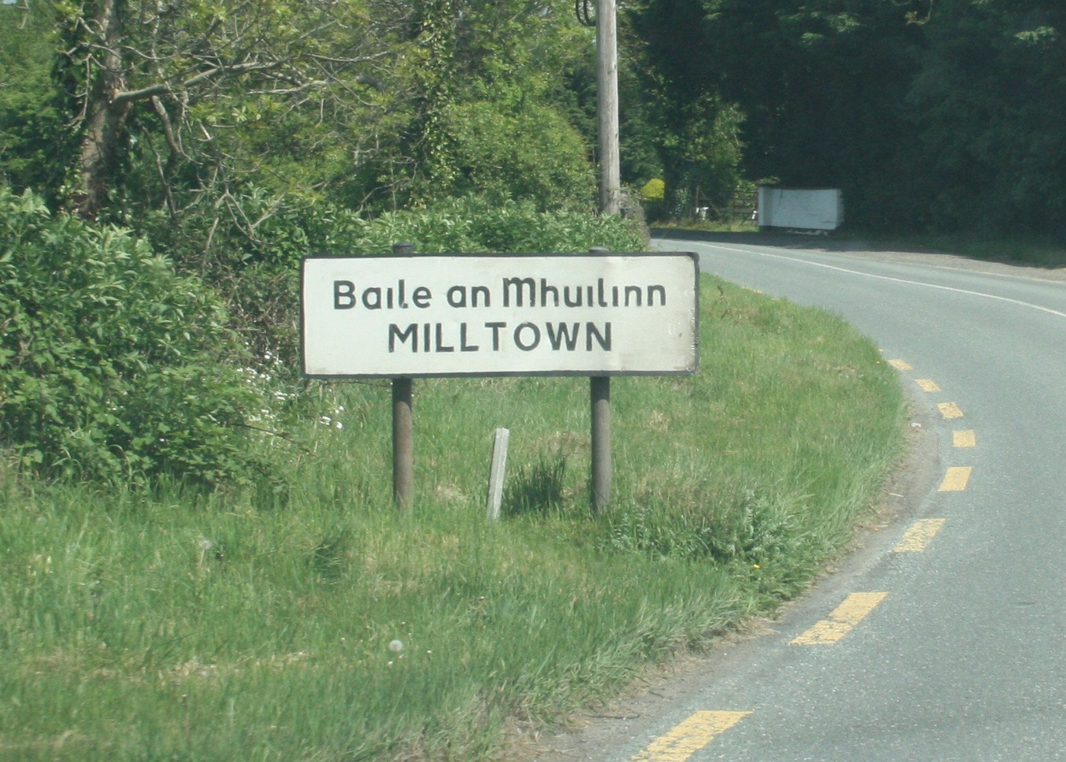 Milltown Sign, Co. Kildare